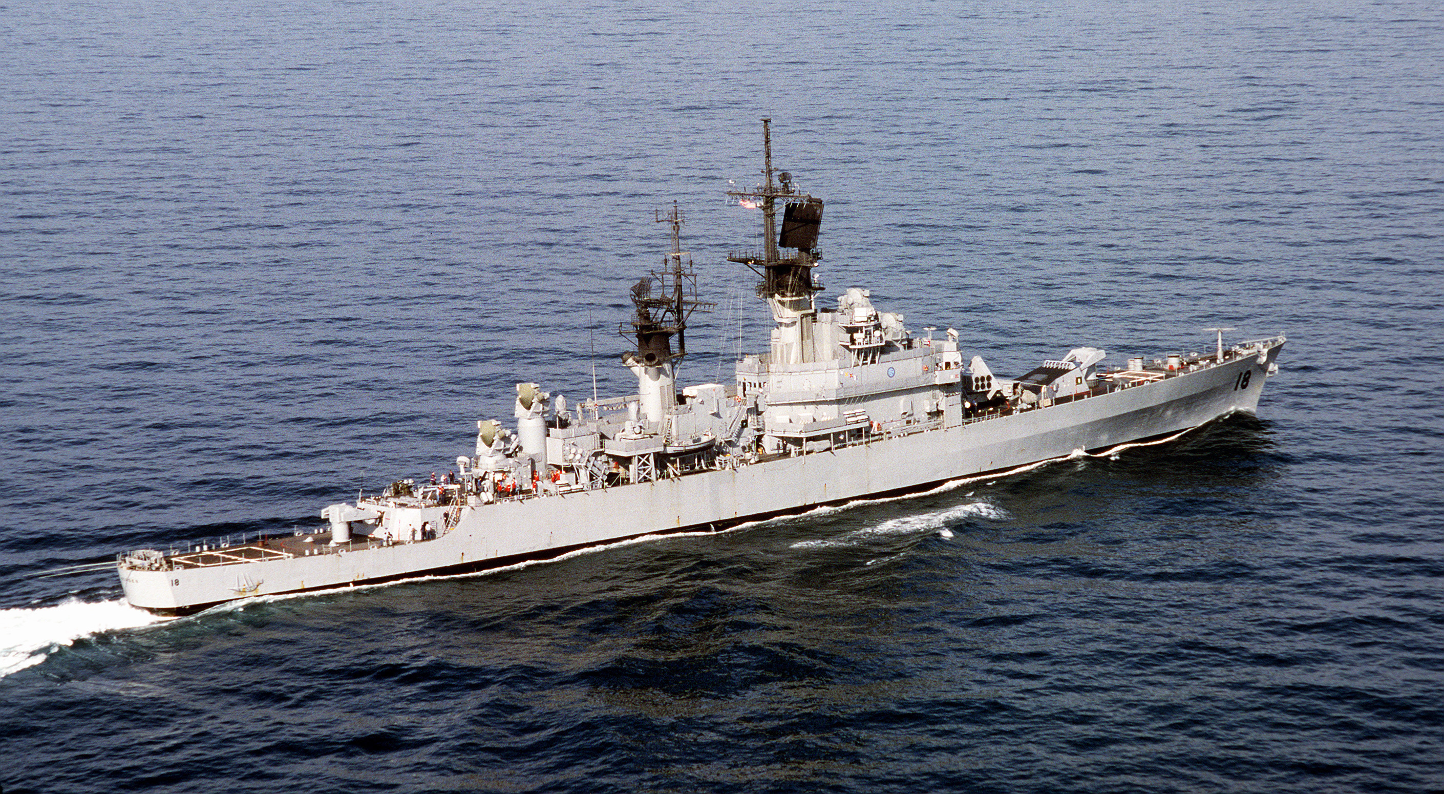 The U.S. Navy guided missile cruiser USS Worden (CG-18) underway during "Operation Desert Shield" on 11 December 1990.